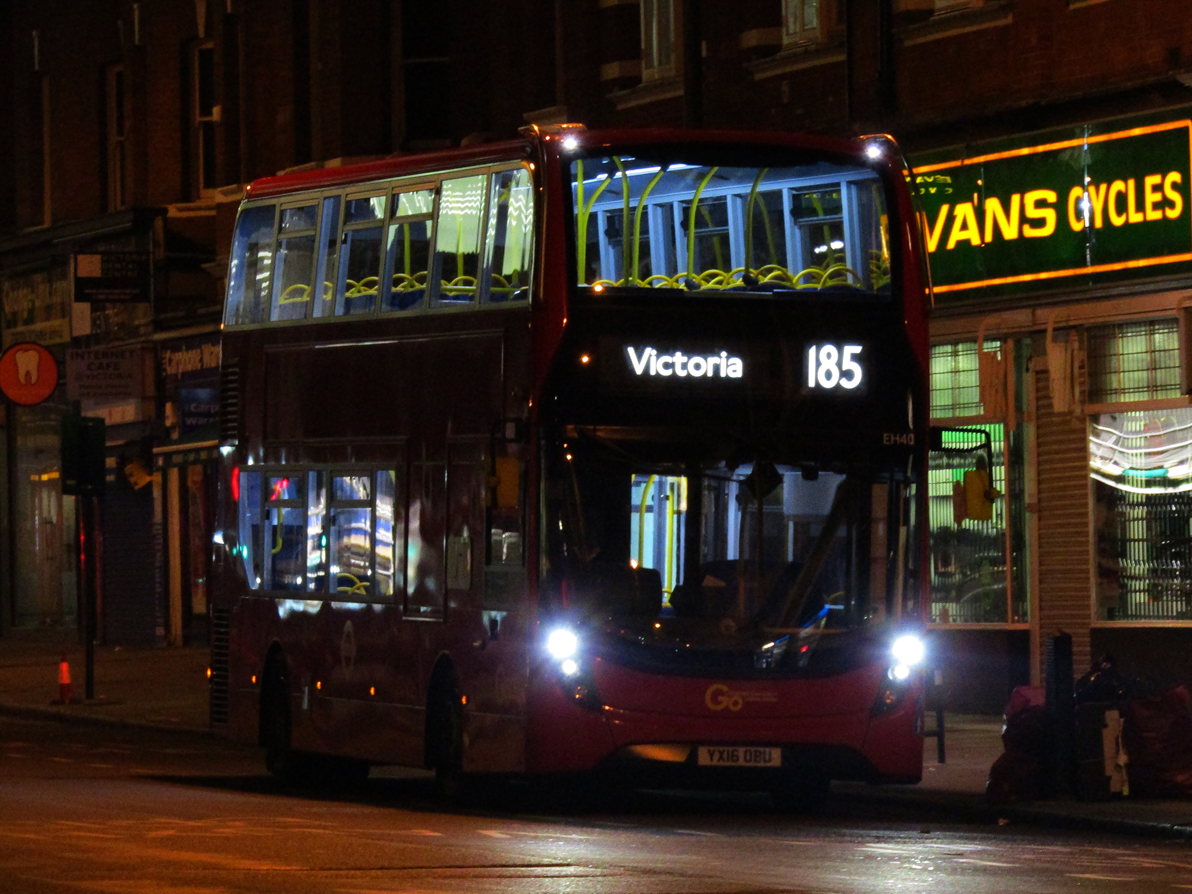 First ever working of an Enviro400 MMC hybrid on route 185 (Victoria - Lewisham). Go-Ahead London: London Central - AD E40H/Alexander Dennis Enviro400 - EH40 YX16OBU - Route 185